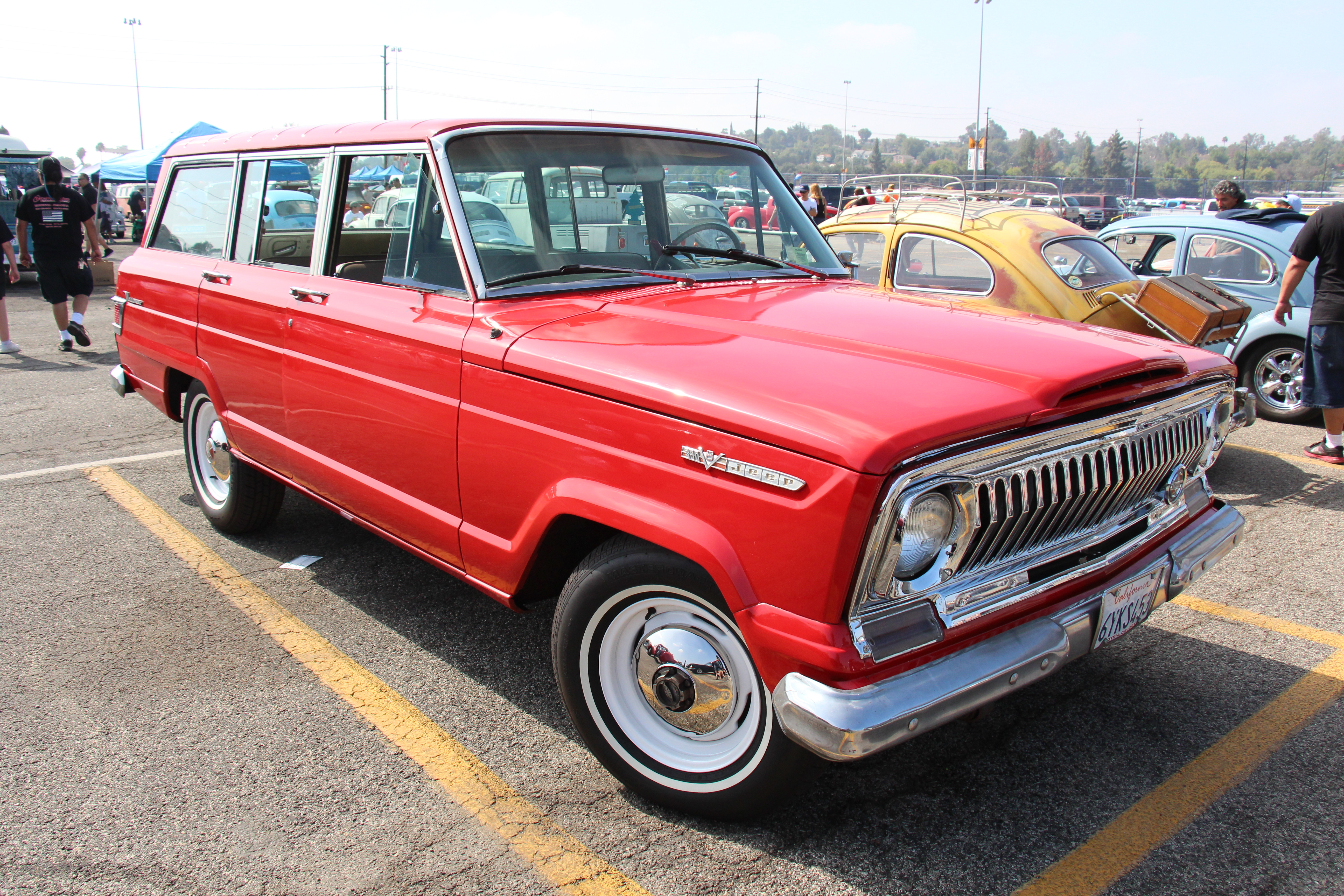 The Jeep Wagoneer was the first luxury 4x4, it was sold from 1963-91, introduced 7 years before Land Rovers luxury Range Rover was. The Wagoneer saw only minor mechanical changes during its 28 year life. It shared its styling with the Jeep Gladiator pickup truck. The Wagoneer featured free wheeeling hubs, power windows and tailgate, power disc brakes and air conditioning. From 1970 Jeep was owned by AMC, then in 1987 taken over by Chrysler, so during this period, they ran with AMC engines. Engine; 350 cu in V8